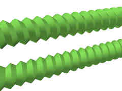 Right-handed (above) and left-handed (below) threads